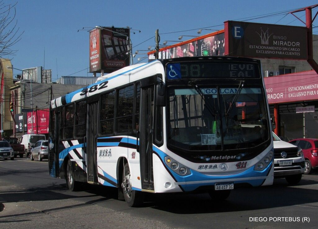 Hi is Line 382